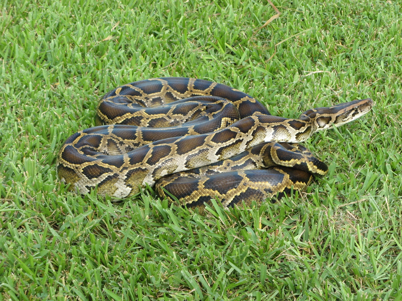 This Burmese python was captured in Everglades National Park in Florida, where the invasive snakes have established a large breeding population. (Susan Jewell/USFWS)